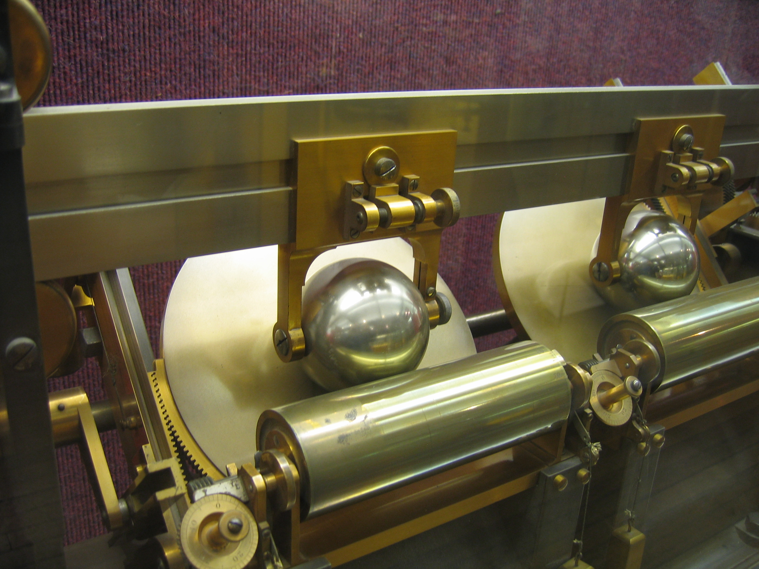 Disc and sphere from Lord Kelvin's harmonic analyser of 1878. Used for mathematical analysis of tides. Science Museum website